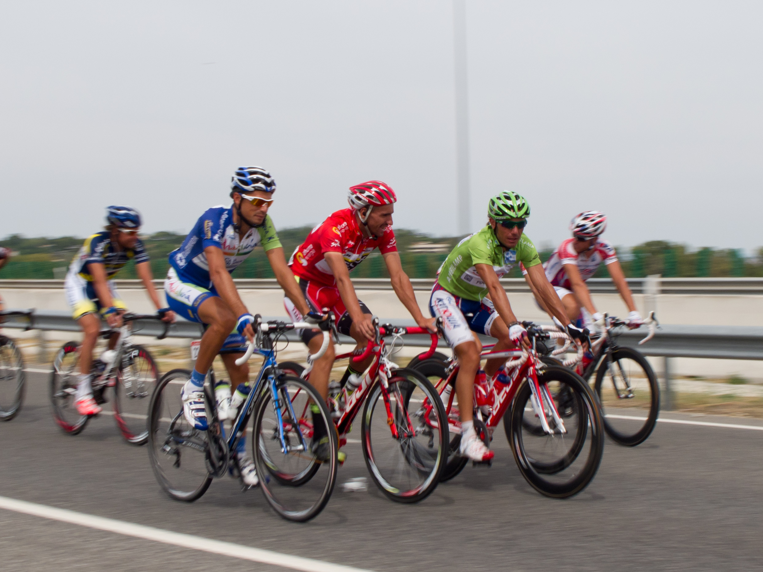 Juanjo Cobo, dressed in red as the leader of the race, accompanied by Joaquim Rodríguez by his left side and a cyclist of Andalucía-Caja Granada (I can't recognise him, I'm sorry) by his right side.